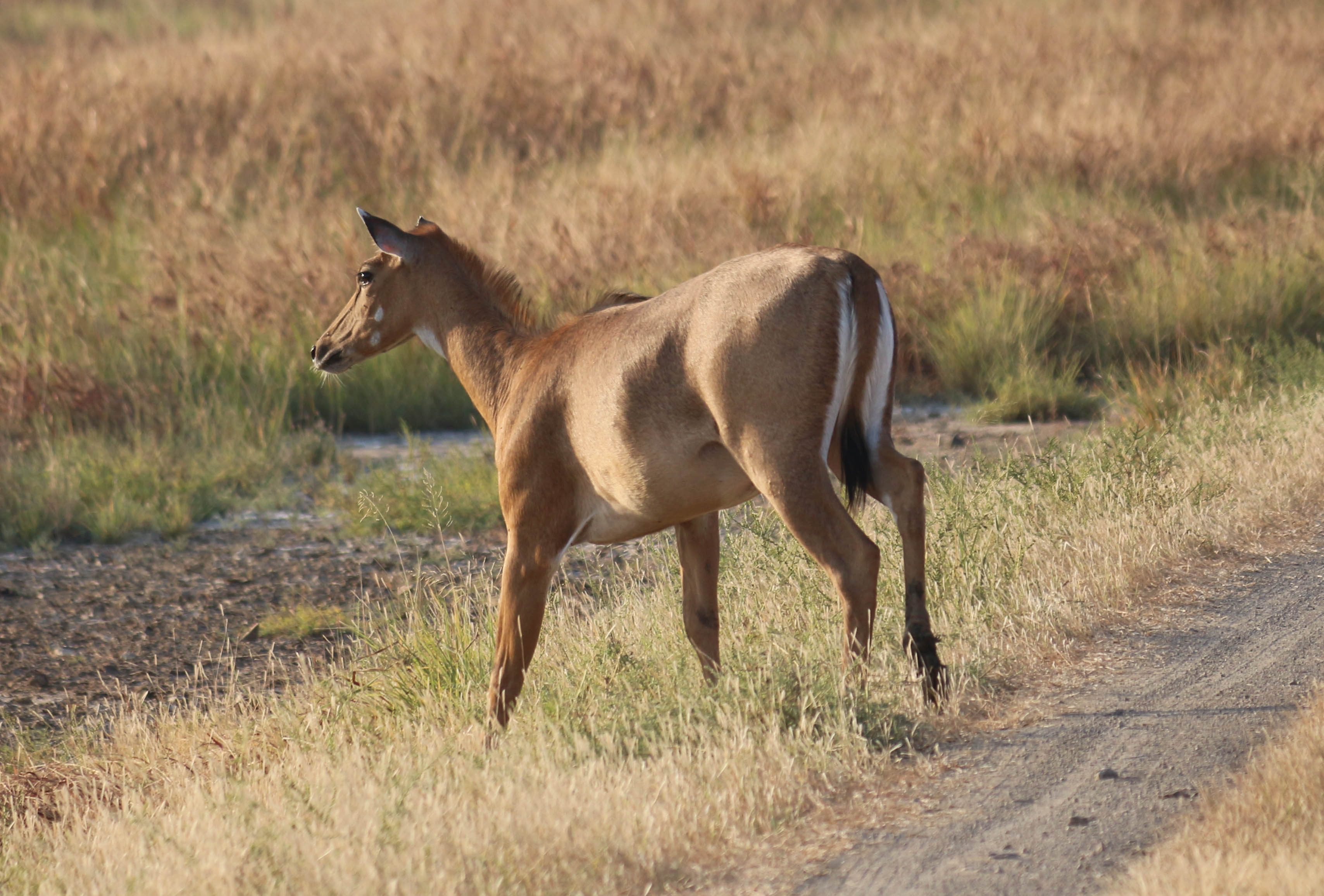 Female Nilgai (Boselaphus tragocamelus) in Blackbuck National Park, Velavadar, India